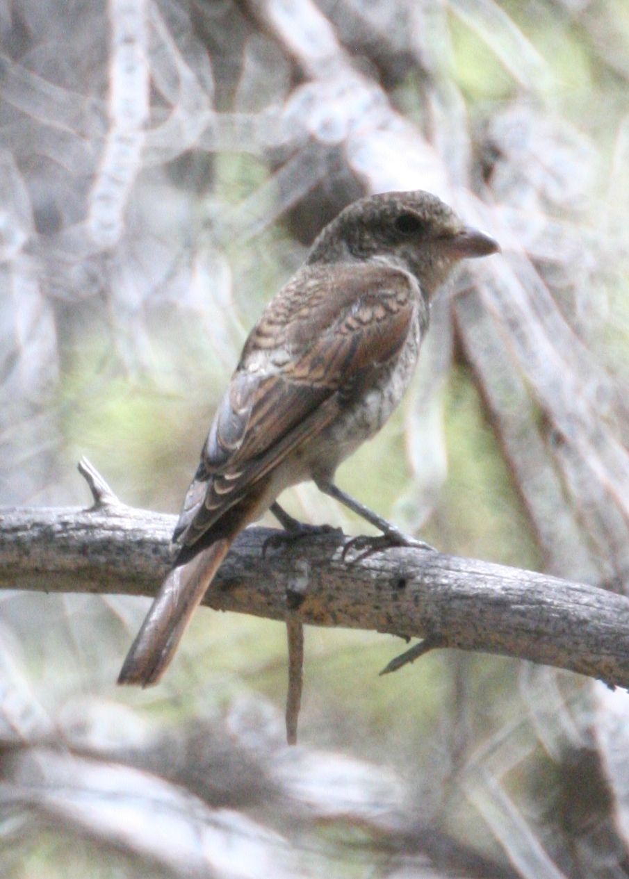 Woodchat Shrike (juvenile), Cala Vinyes, Mallorca, Spain